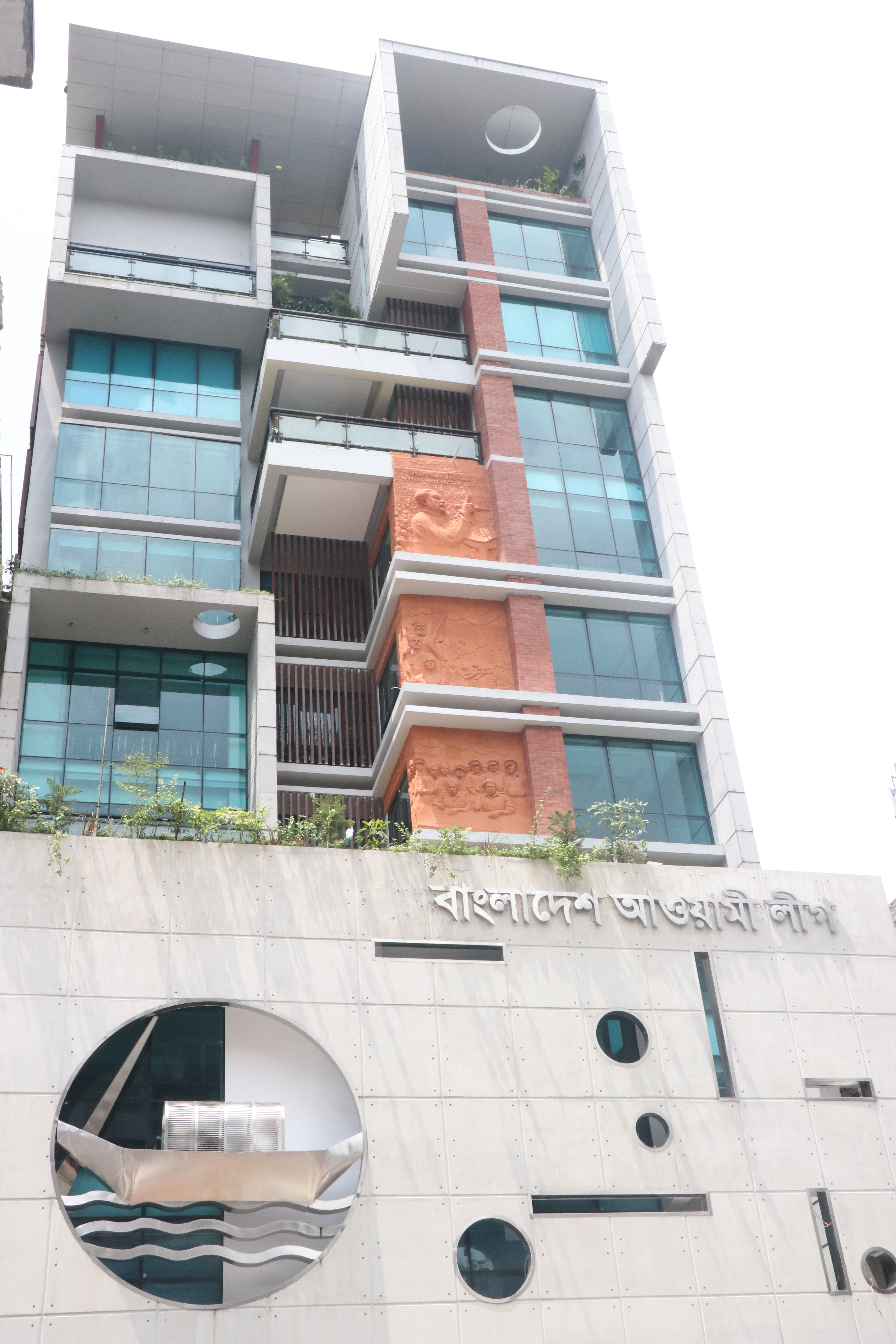 Bangladesh Awami League (BAL) new office of permanent address at Bangabandhu Avenue area.